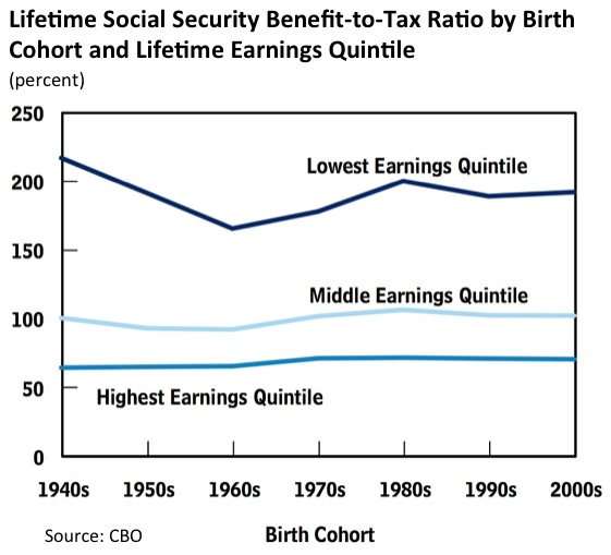 Lifetime Social Security Benefit-to-Tax Ratio by Birth Cohort and Lifetime Earnings Quintile (percent)